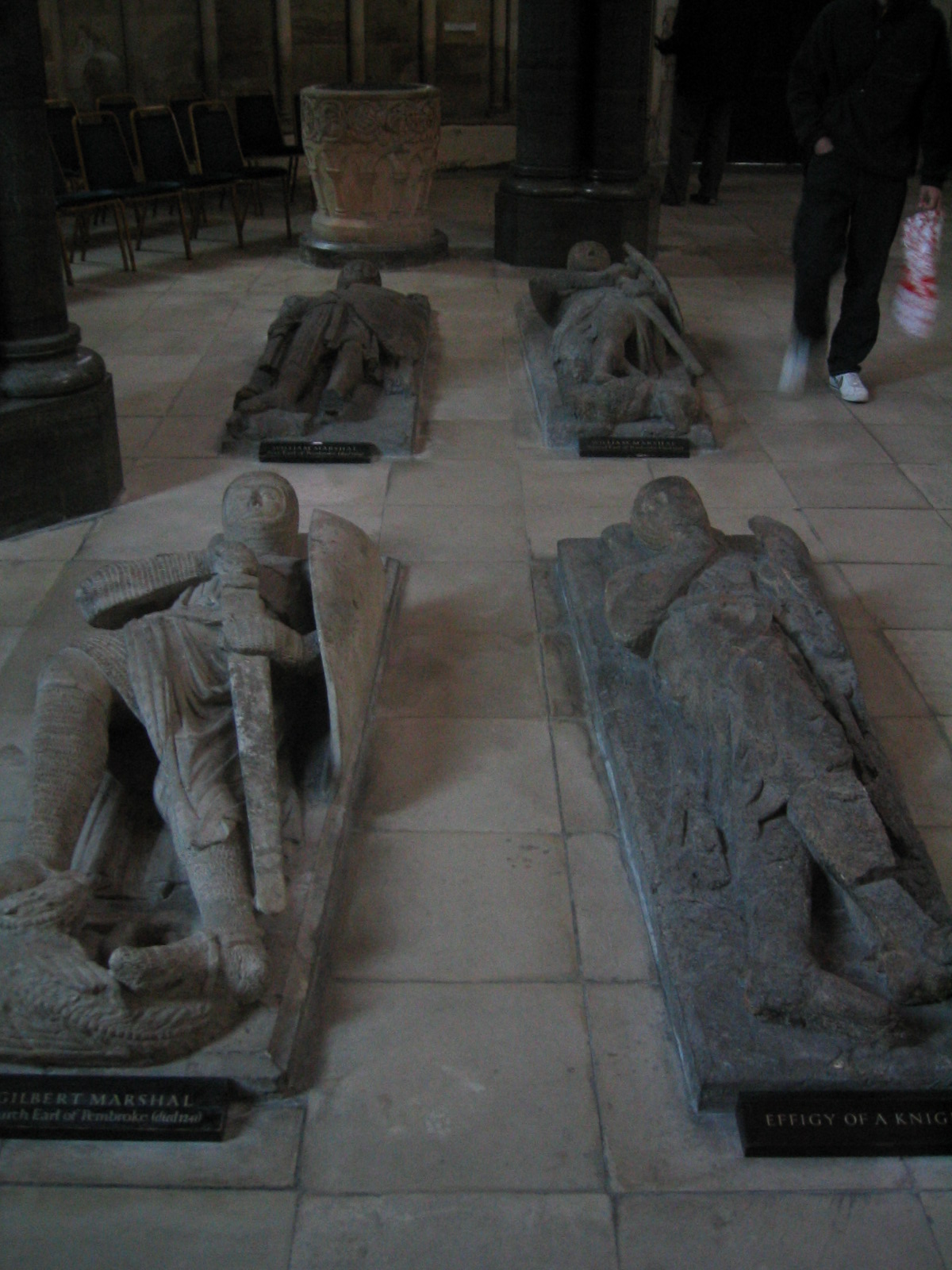 Temple Church in London - the knight effigy tombs